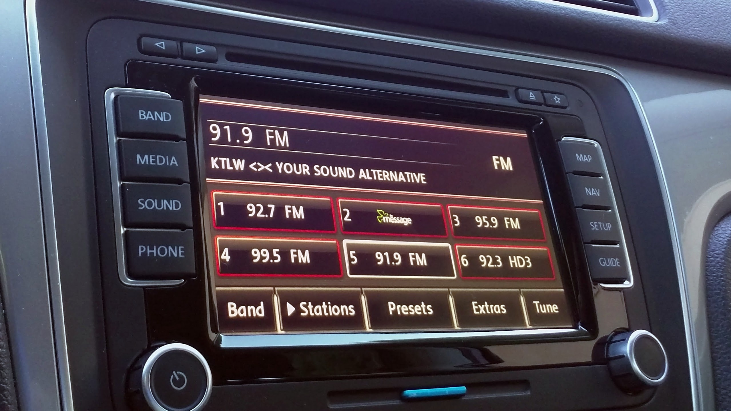 KTLW 91.9 FM - Your Sound Alternative